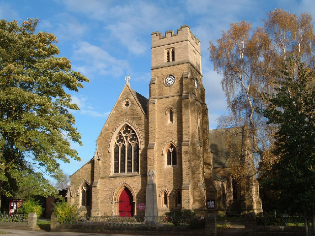 St Oswald's Church. St Oswald's Church Fulford, on the A19 leading to York city centre.